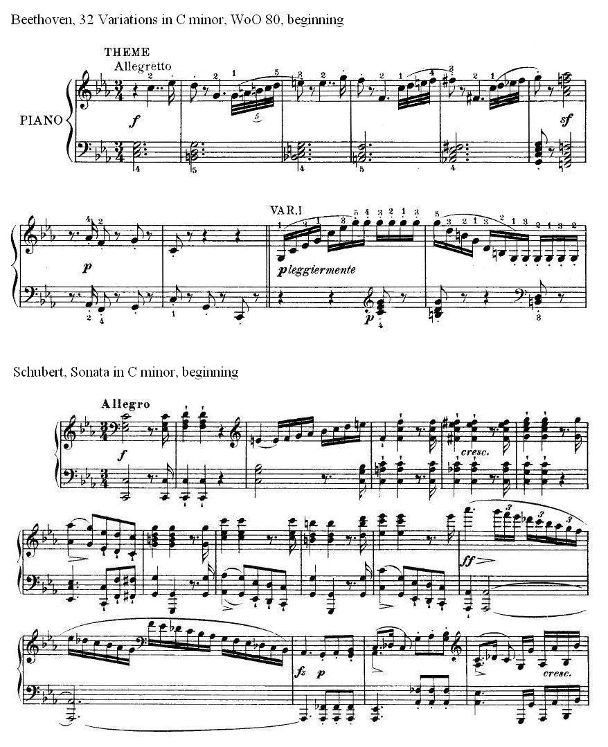 Comparison of the opening of Beethoven's 32 variations with that of Schubert's C minor sonata.